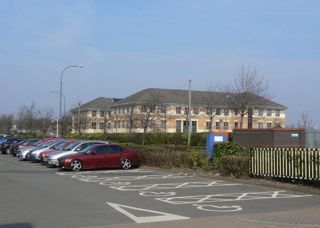 Embankment House Modern office block on the site of the old power station.